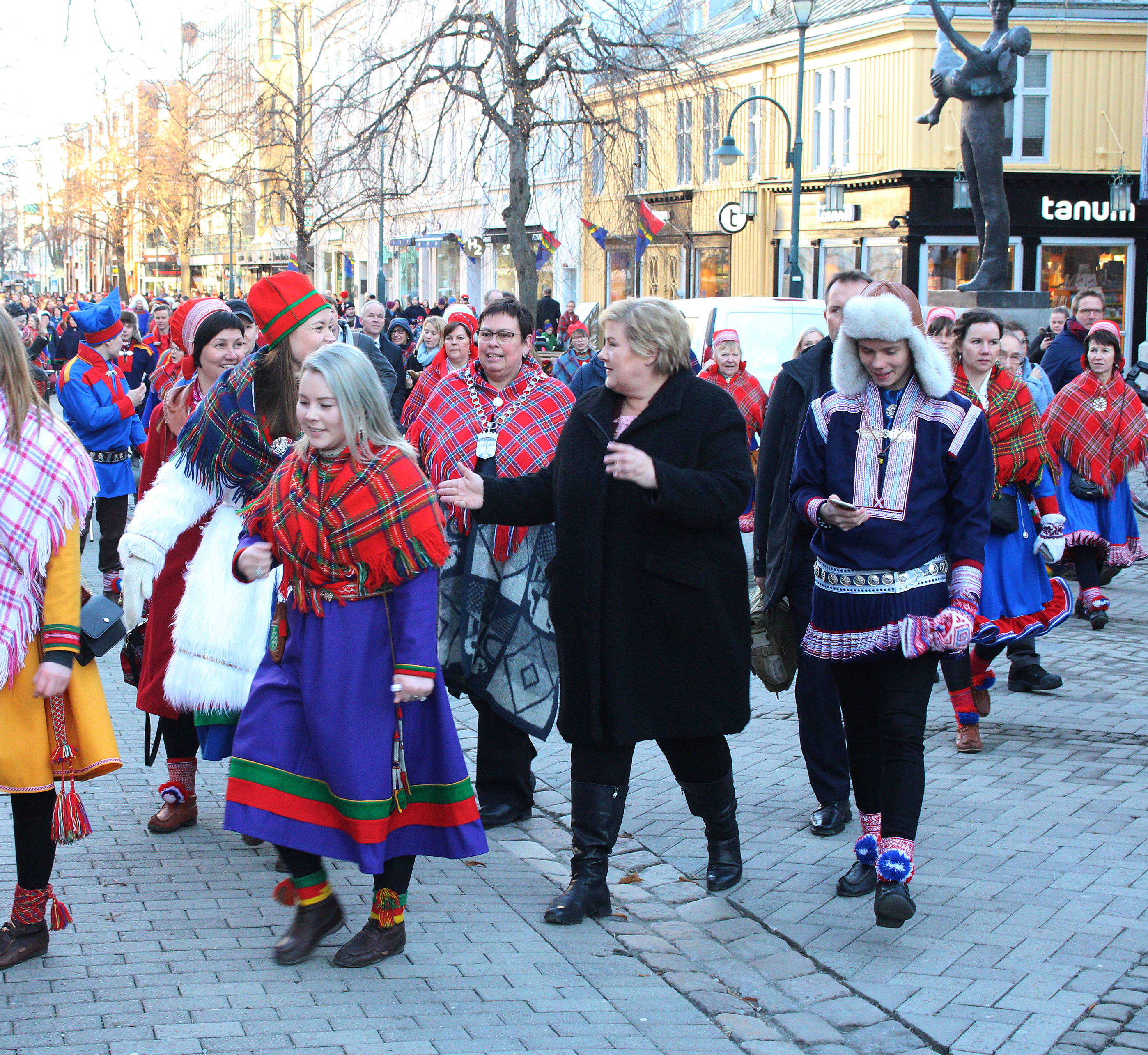 Nordre Gate in Trondheim on the Sami National Day, with the Sámi Pathfinders, Prime Minister Erna Solberg, Project Manager Ida Marie Bransfjell, Aili Keskitalo, Mayor Rita Ottervik and many visiting guests.